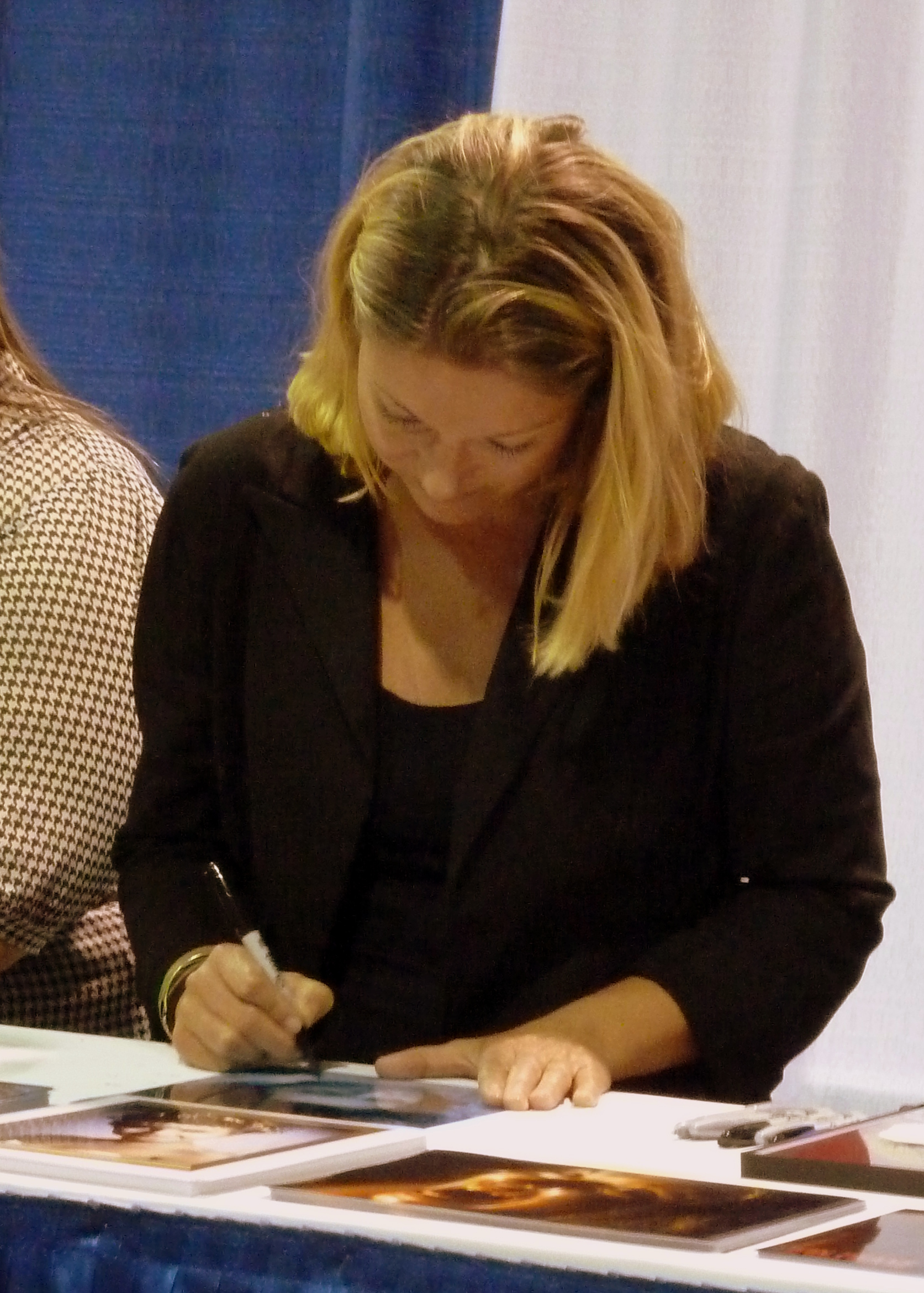 Sheryl Lee 1 Guests at Wizard World Chicago 2012.